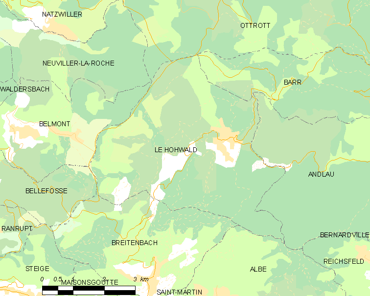 Map of French municipality